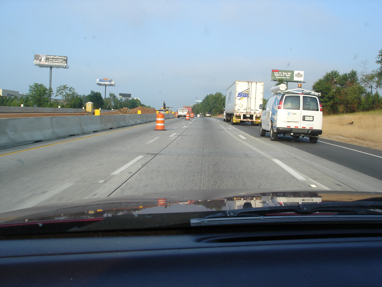 Photograph of Interstate 85 where middle lanes are under road contsruction